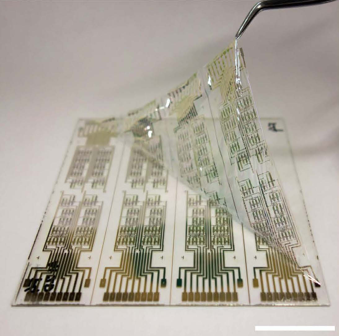 Photograph of organic CMOS logic circuit on a one-micron-thick (μm) substrate. The total thickness is less than 3 μm. Scale bar, 25 mm.